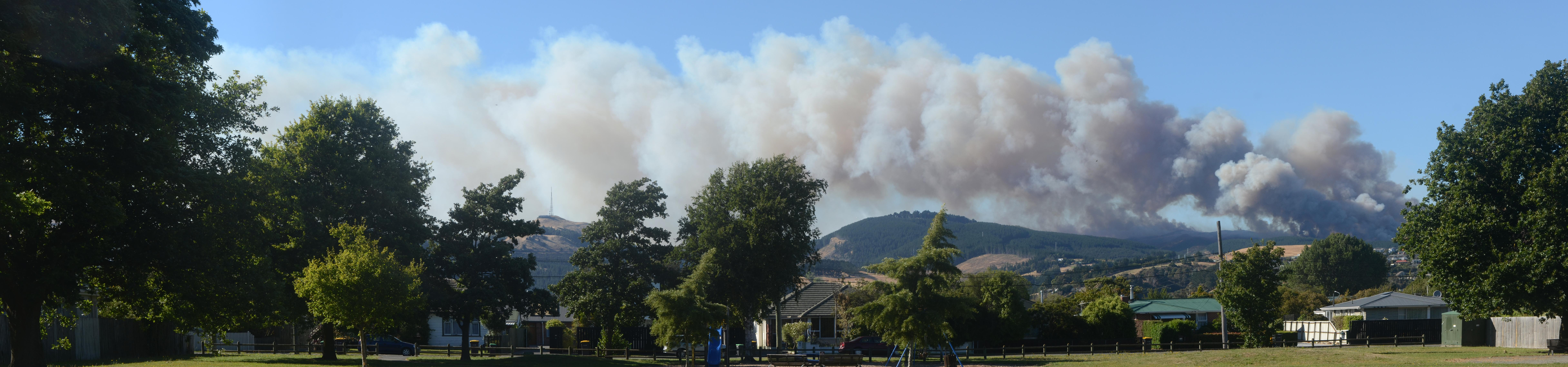 View of the 2017 Port Hills fires from Gainsborough Park, Hoon Hay.